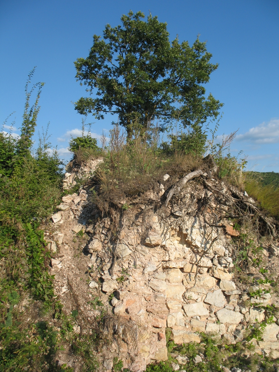 Remains of Mali Grad (Citadel) in Petrus fortress near Paraćin,Serbia.